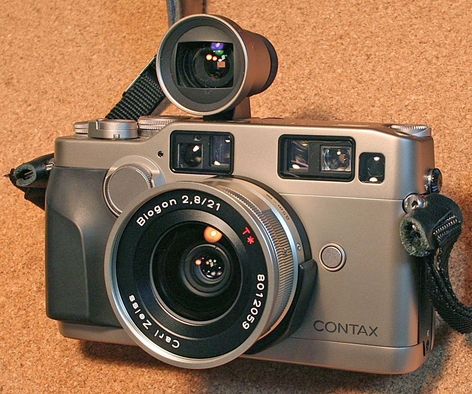 Contax G2 rangefinder camera with Carl Zeiss Biogon 21mm/2.8